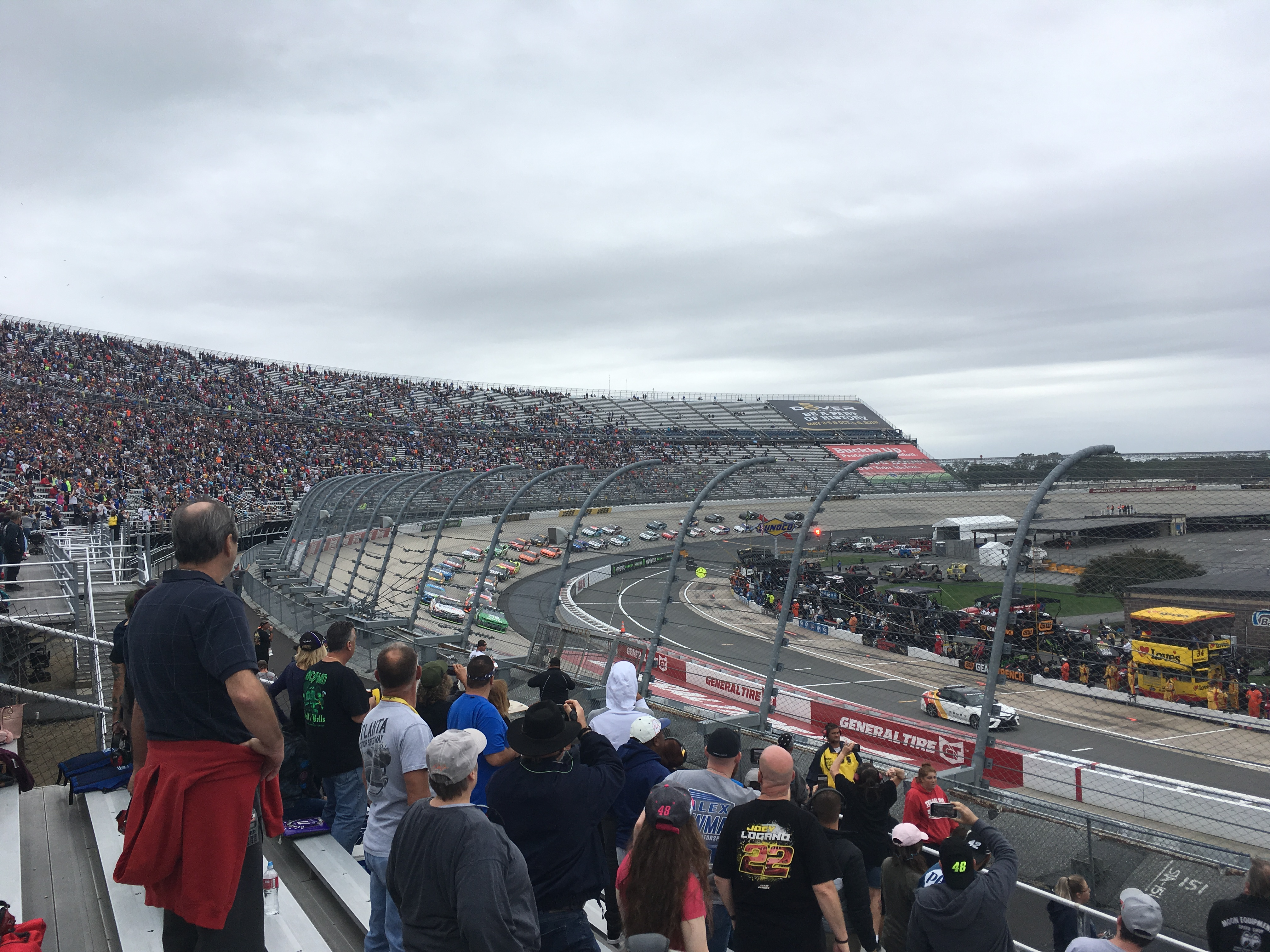 The 2019 Drydene 400 at Dover International Speedway viewed from the frontstretch. Denny Hamlin (#11) leads Kyle Larson (#42) and the rest of the field to the green flag at the beginning of the race.